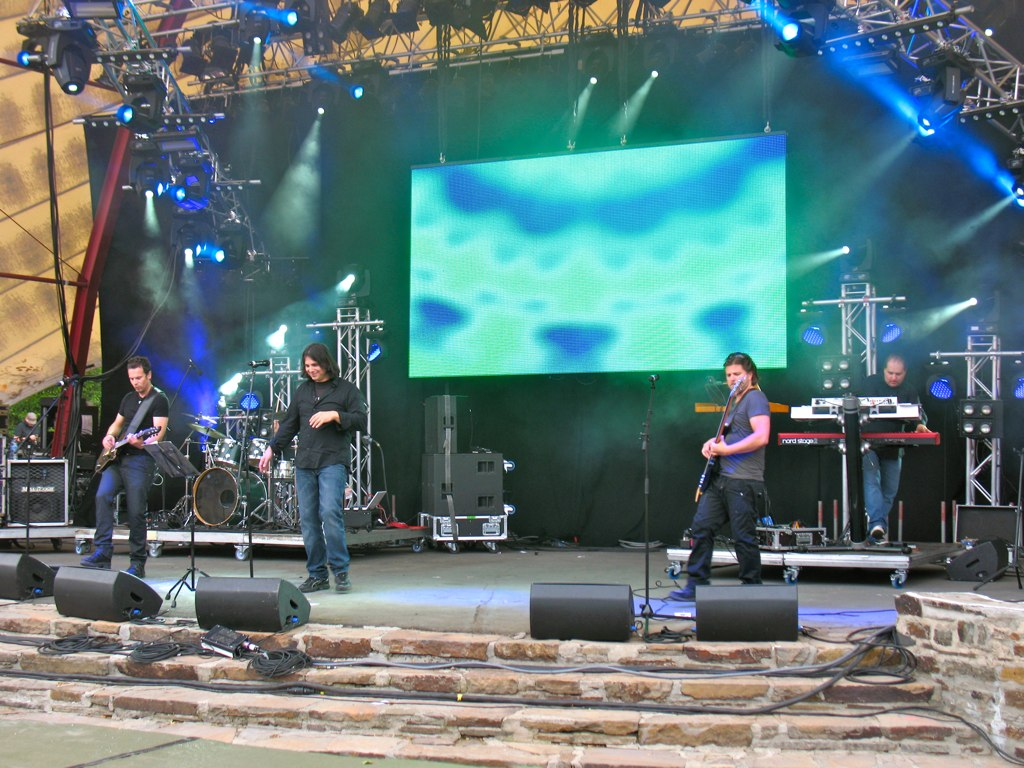 RPWL, Lorelei, 2011